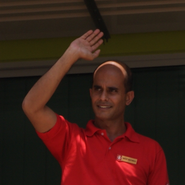 Singapore Democratic Party candidate Dr. Vincent Wijeysingha waving to supporters at Greenridge Secondary School in Bukit Panjang, Singapore, which was used as the nomination centre for Bukit Panjang Single Member Constituency and Holland-Bukit Timah Group Representation Constituency during the Singaporean general election, 2011.